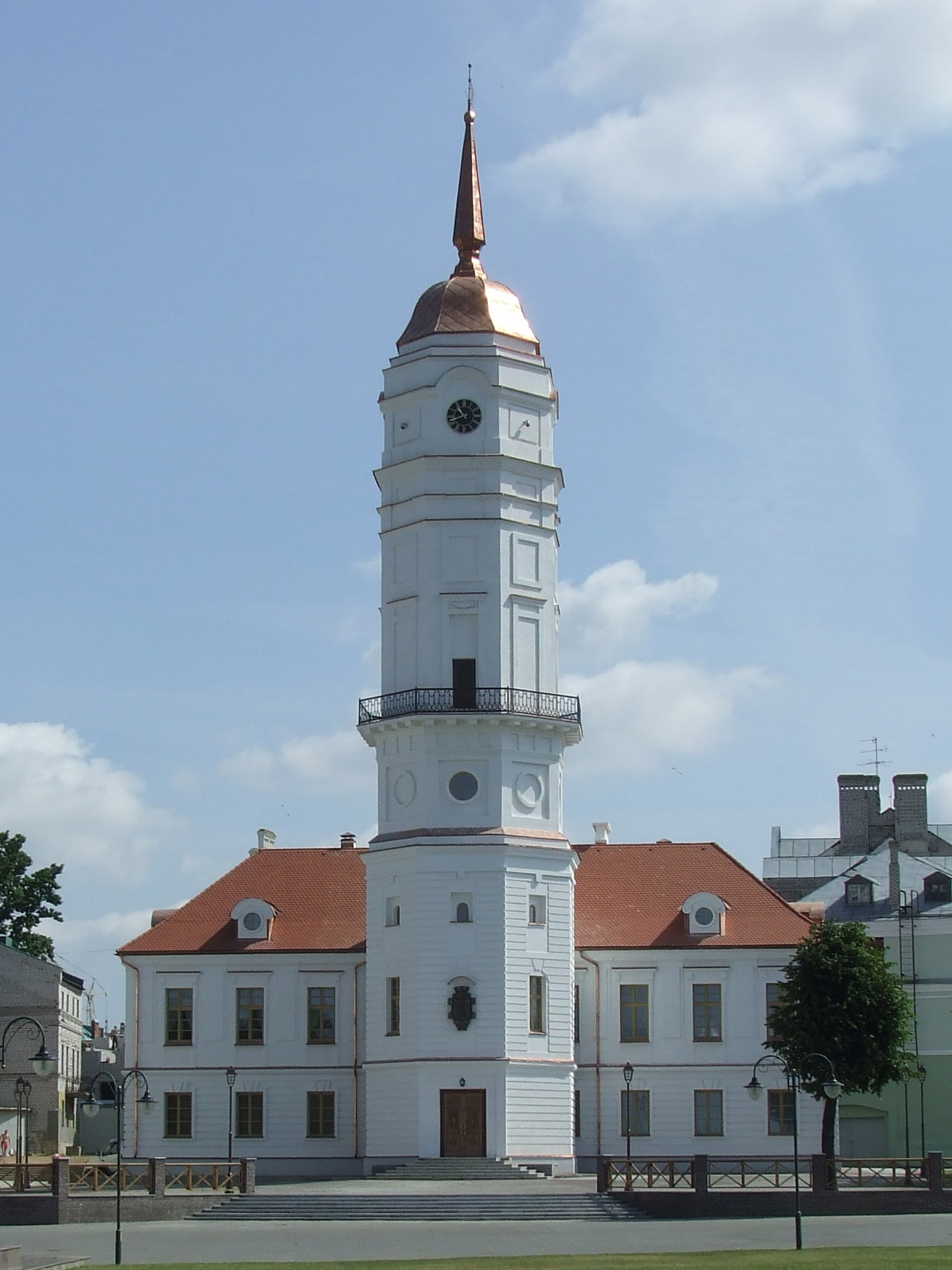 City Hall in Mahilyow